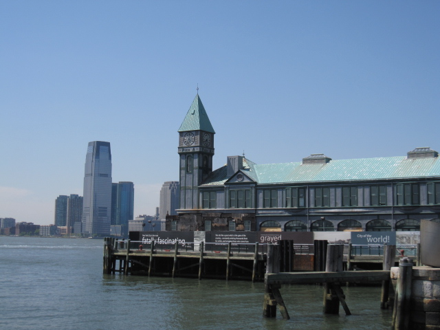 City Pier A